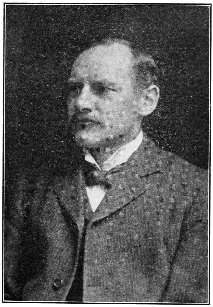 Ernest William Brown